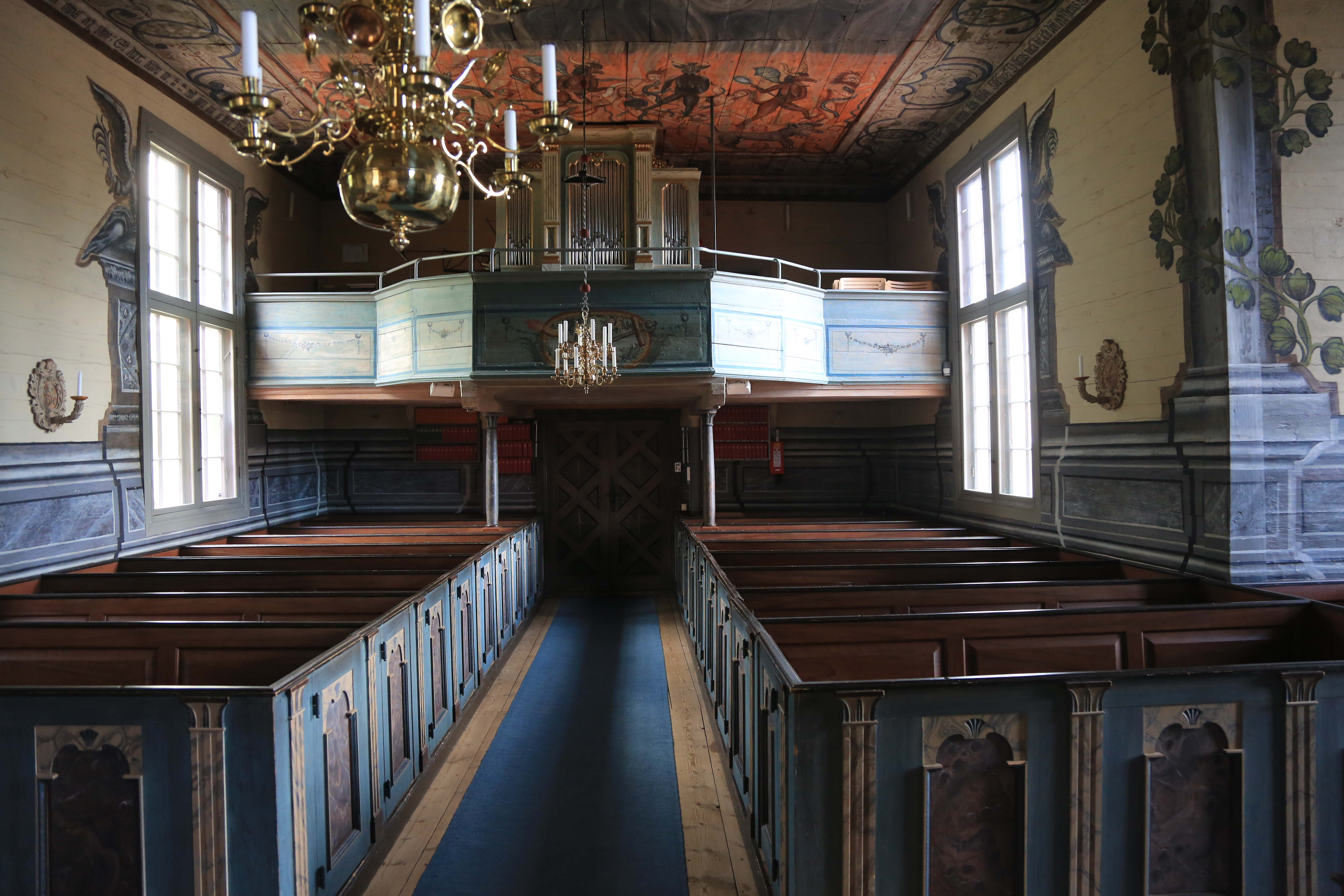 Brandstorps church.